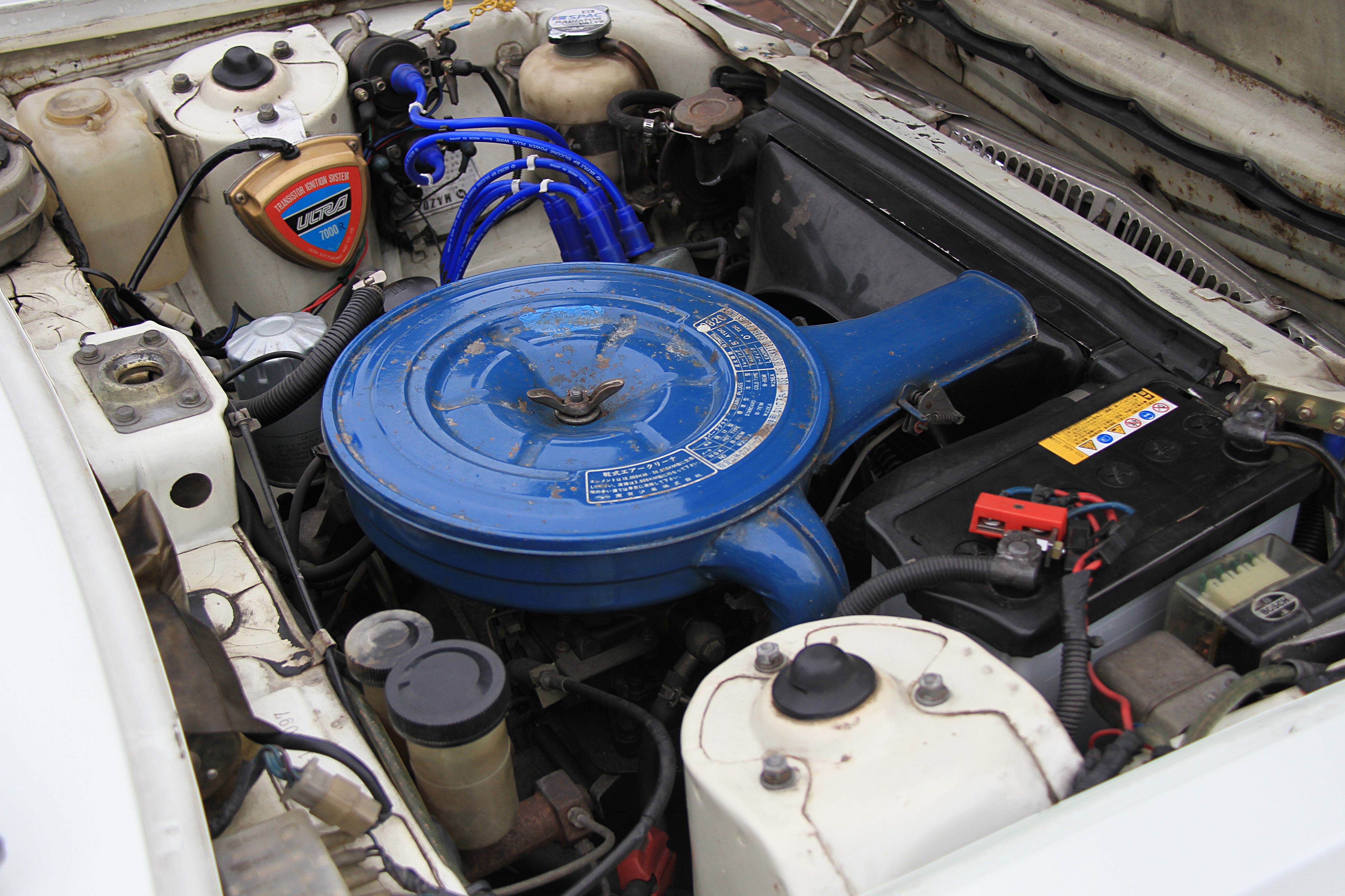 2nd Mazda Familia